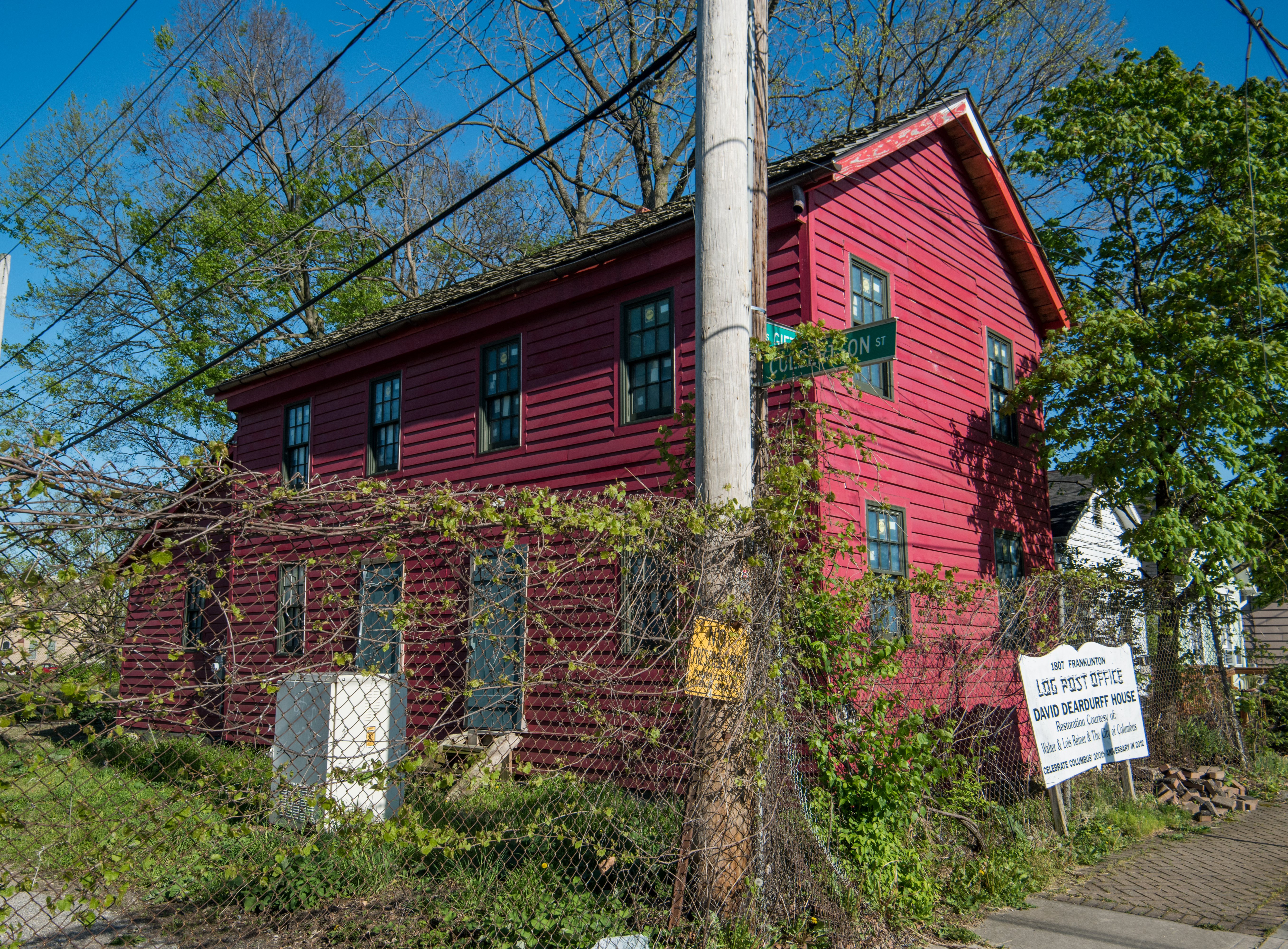 Franklinton Post Office, Columbus, Ohio. "Built in early 1807, the Franklinton Post Office is the oldest known building in Franklin County standing on its original foundation."